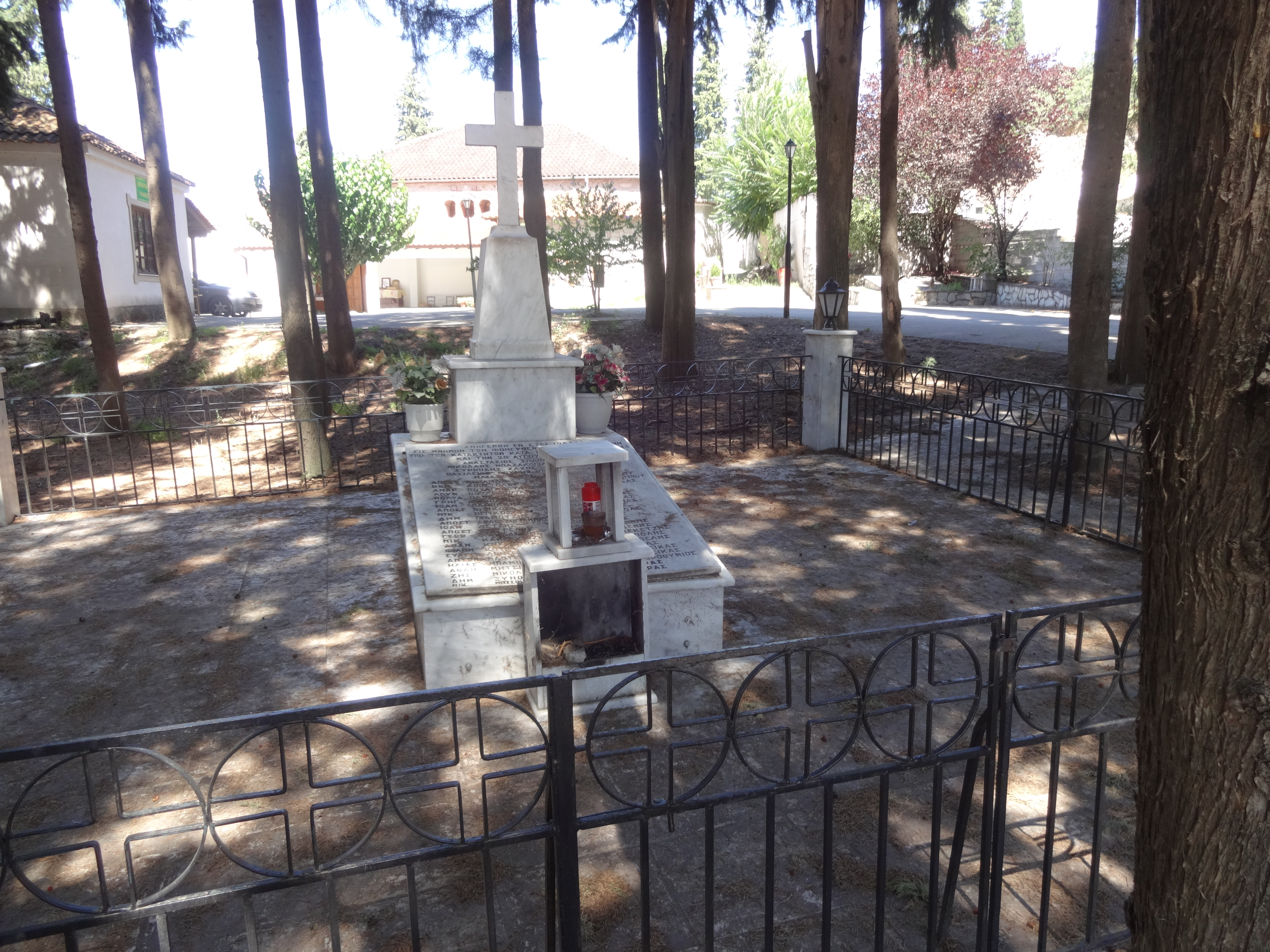 Tsaritsani, Greece. Memorial plate to executed by Italian faschists in 1943 and German Nazi in 1944.